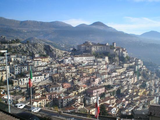 Muro Lucano